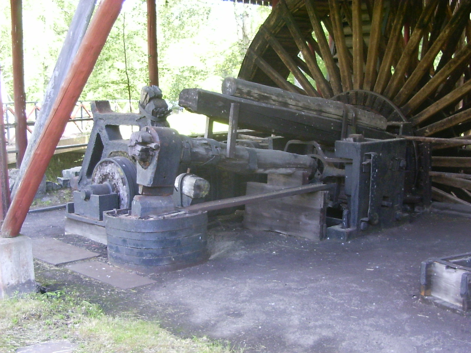 Korså bruk, water powered hammer